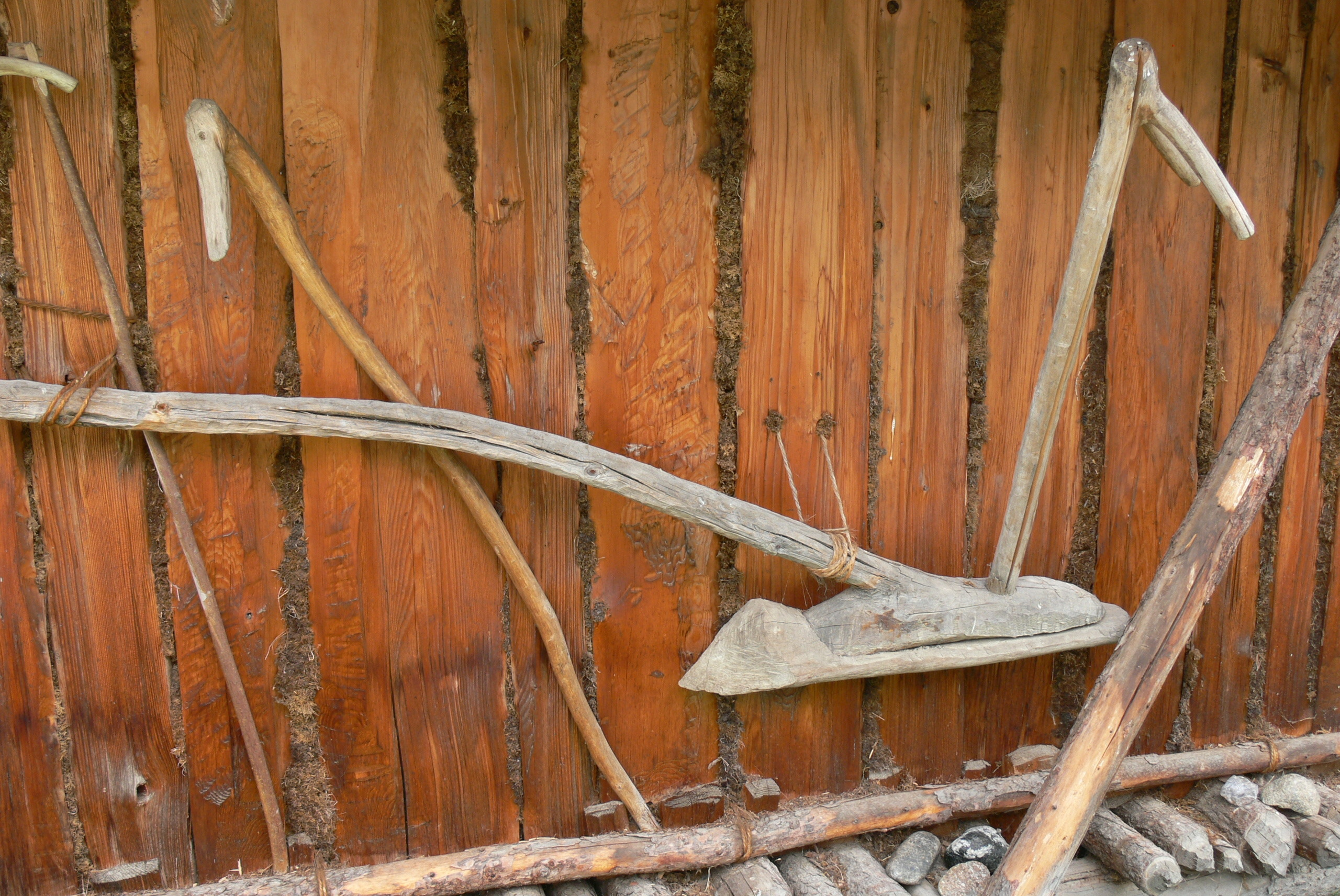 Archeoparc ( Schnals valley / South Tyrol ). Reconstruction of a neolithic hut - Wooden plough.